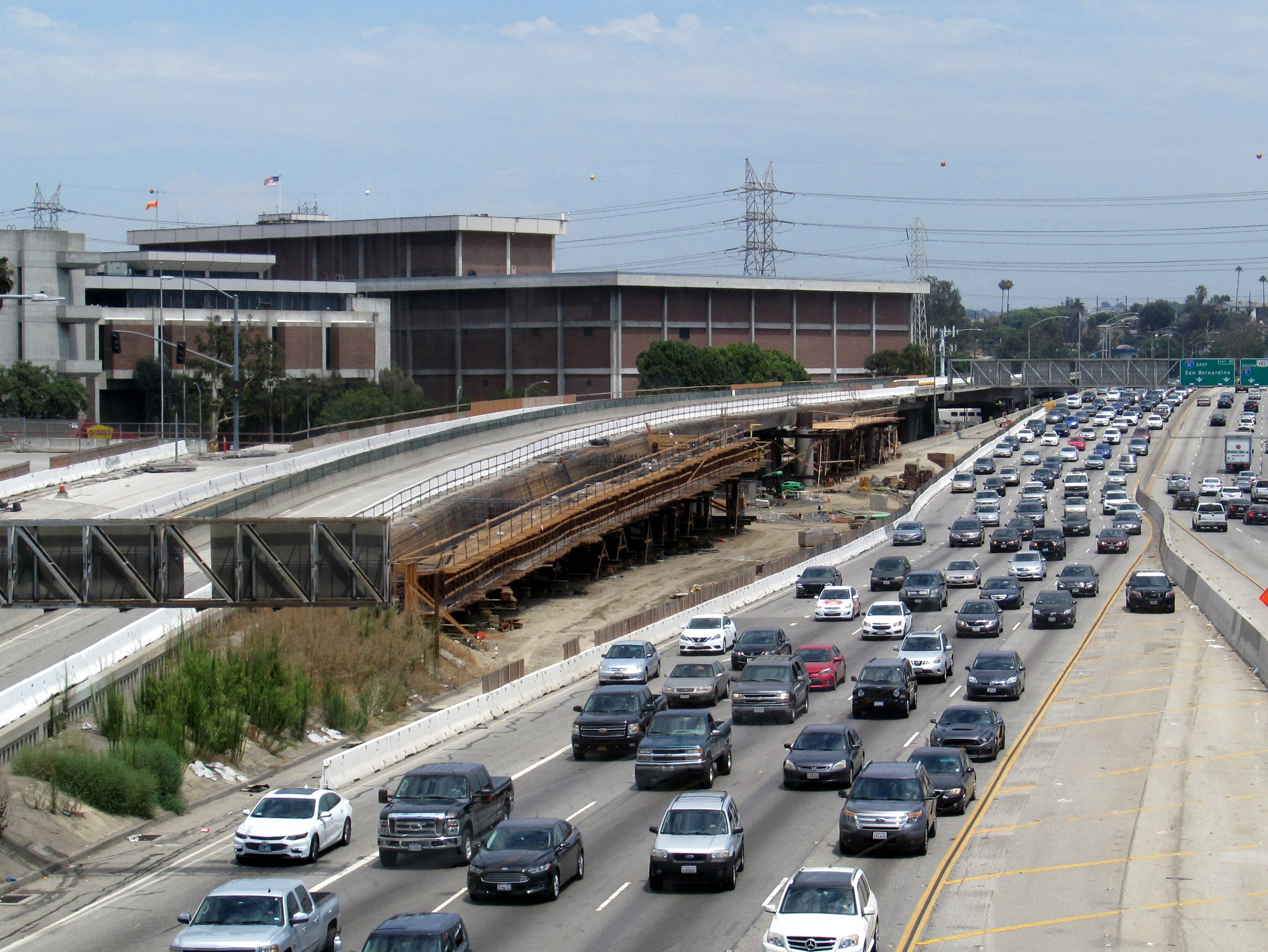 El Monte Busway stop at Patsaouras Transit Plaza under construction in July 2017